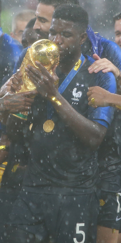 French footballer Samuel Umtiti holding the FIFA World Cup Trophy after the tournament's final match on 15 July 2018.